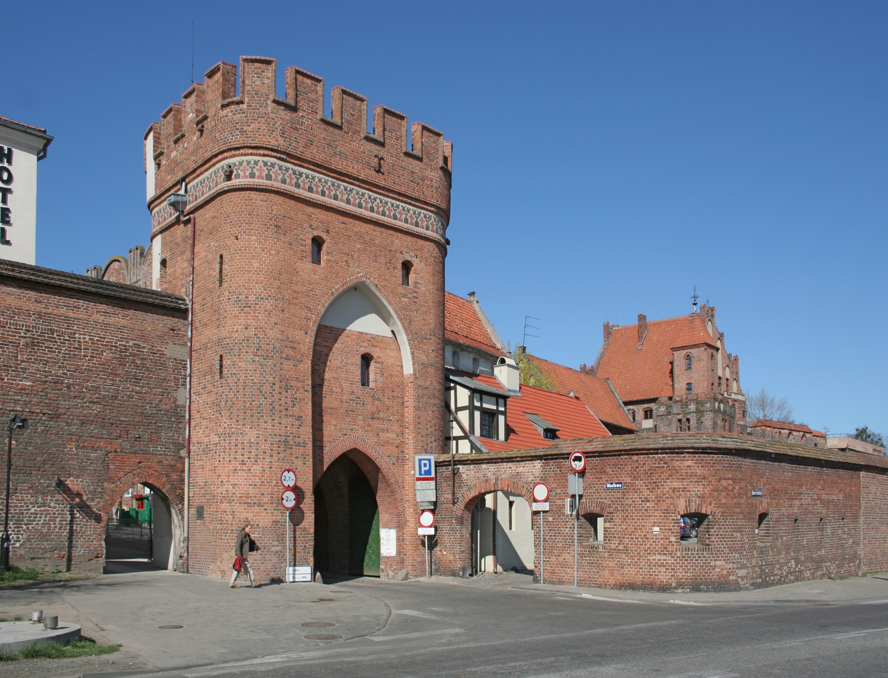 Toruń, Bridge Gate and St George Guildhall